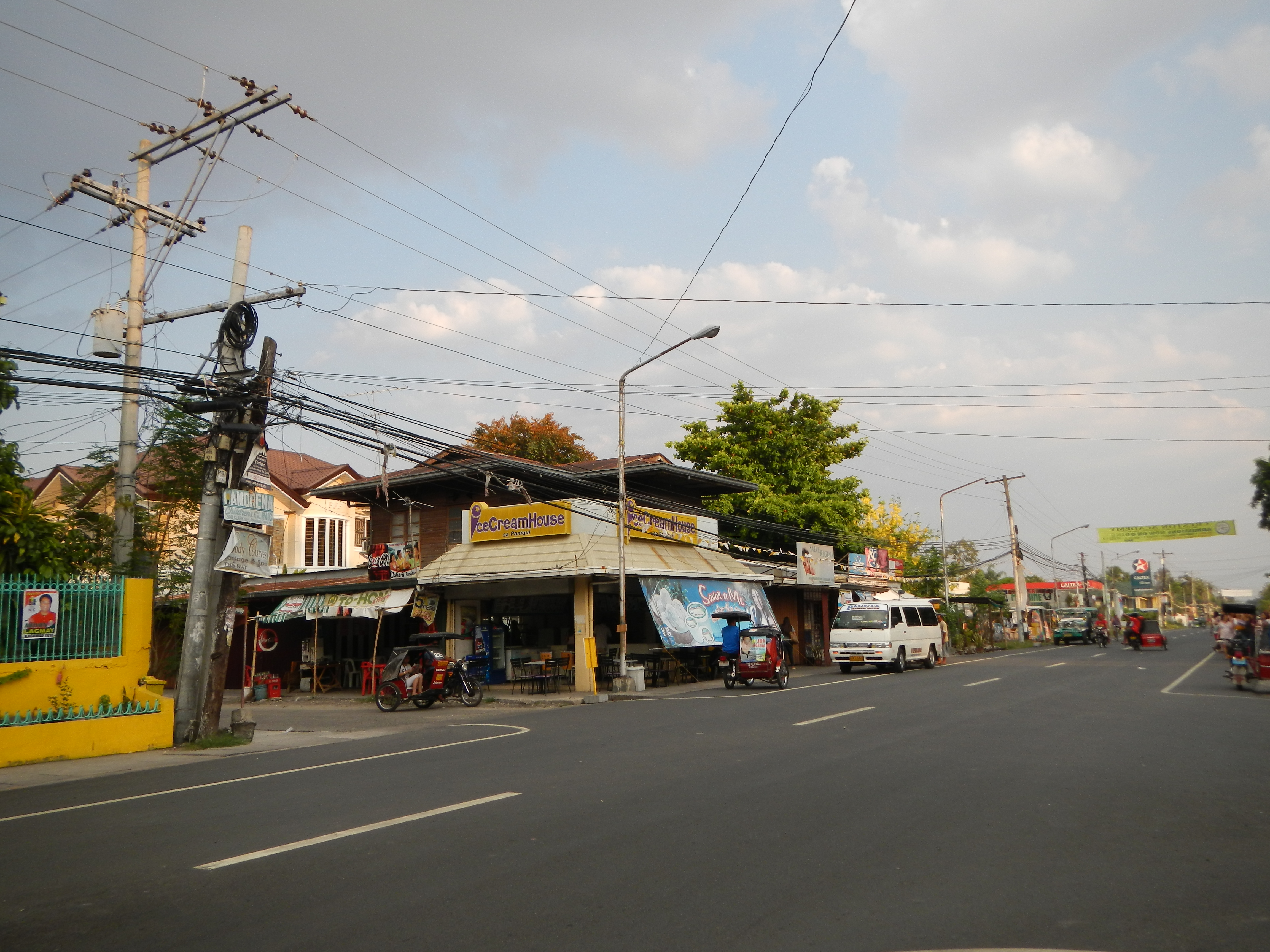 Paniqui, Tarlac[1] is a first class municipality in the province of Tarlac, Philippines. According to the 2010 census, it has a population of 87,730 people. Geographically, Paniqui is situated between the towns of Gerona in the south and Moncada in the north. Paniqui came from the word "paniki" which means "bat" in Tagalog. The town has a feature of caves that house a population of bats. It is the birthplace of former President Corazon C. Aquino. Coordinates: 15°40'33"N 120°32'36"E[2]Land Area: 105.16 km² ZIP Code: 2307[3]The birth of Paniqui traces back to1712 when the provincial government of Pangasinan sent a group of men south of Bayambang, Pangasinan for the expansion of the Christian Faith. The pioneering group was led by two brothers, Raymundo and Manuel Paragas of Dagupan and established the Local Government in a sitio called “manggang marikit” (mango of an unmarried woman) now a part of Guimba, Nueva Ecija. ::Surprisingly in this sitio, they saw an extraordinary number of flying mammals called “pampaniki” by Ilocanos. This is where the name Paniqui was derived from.[4]This place is situated in Tarlac, Region 3, Philippines, its geographical coordinates are 15° 40' 8" North, 120° 34' 50" East and its original name (with diacritics) is Paniqui.[5]PANIQUI: CITADEL OF ANTIQUITY[6]